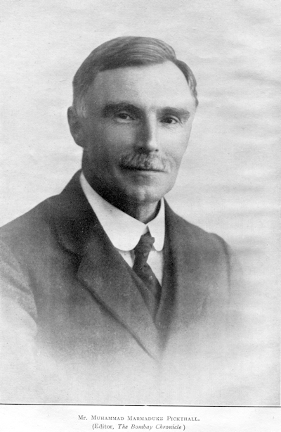 Photographic portrait of Muhammad Marmaduke Pickthall